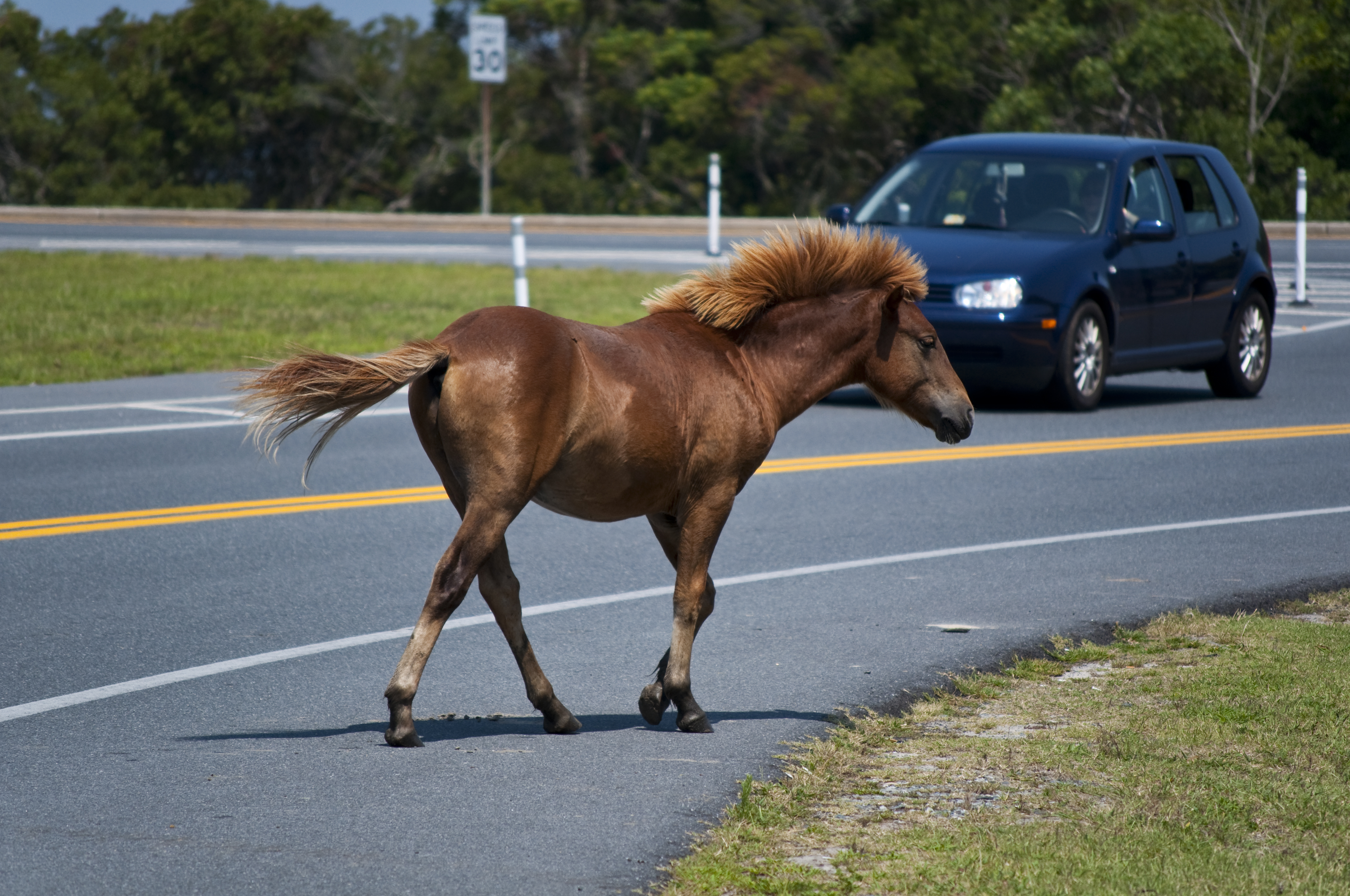 One of the wild (feral) horses (Equus caballus) of Assateague Island, Maryland, USA, crossing a road. Behold his glorious flowing mane.